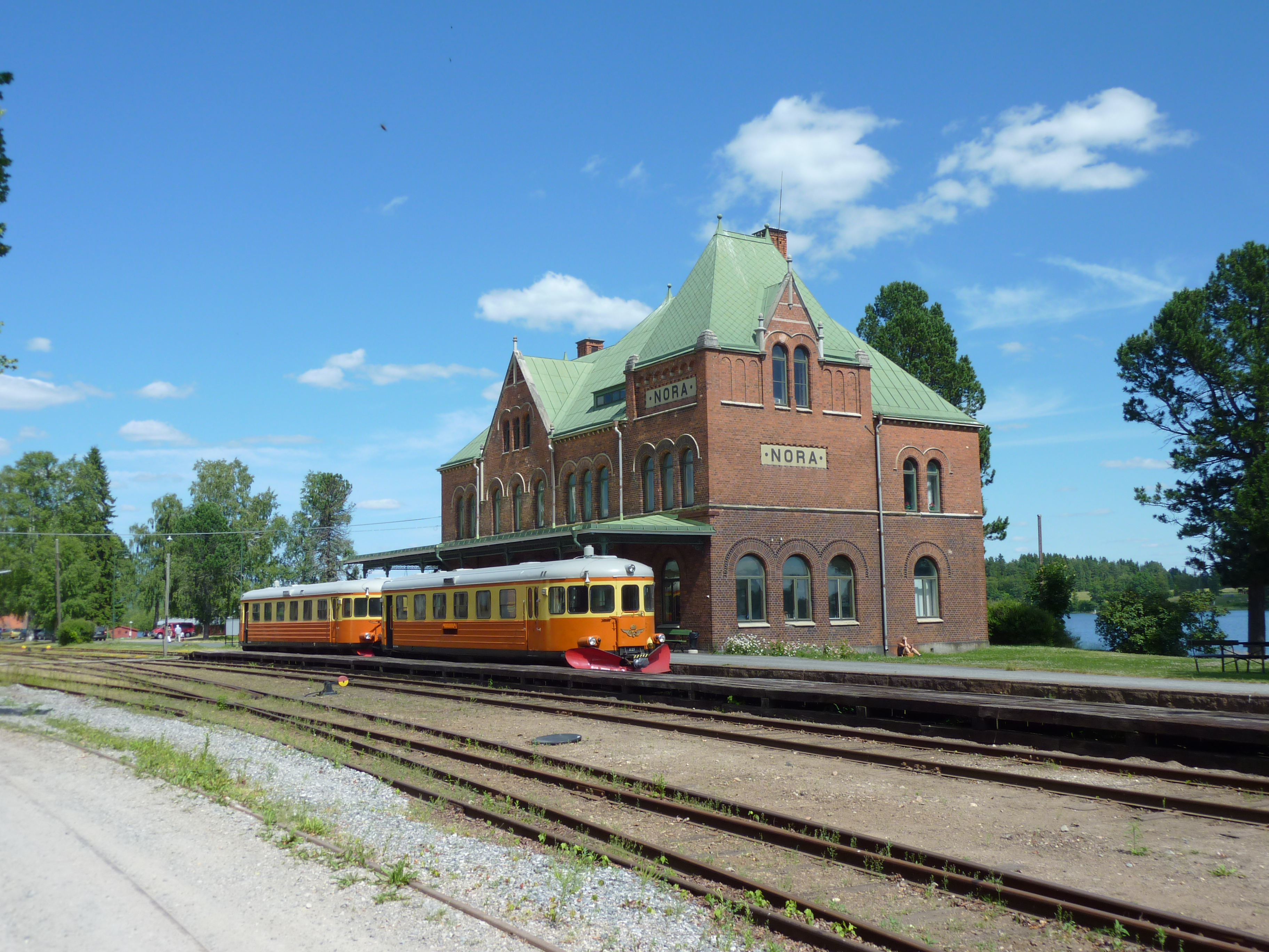 Railway station Nora at Nora Bergslags museum railway in Sweden